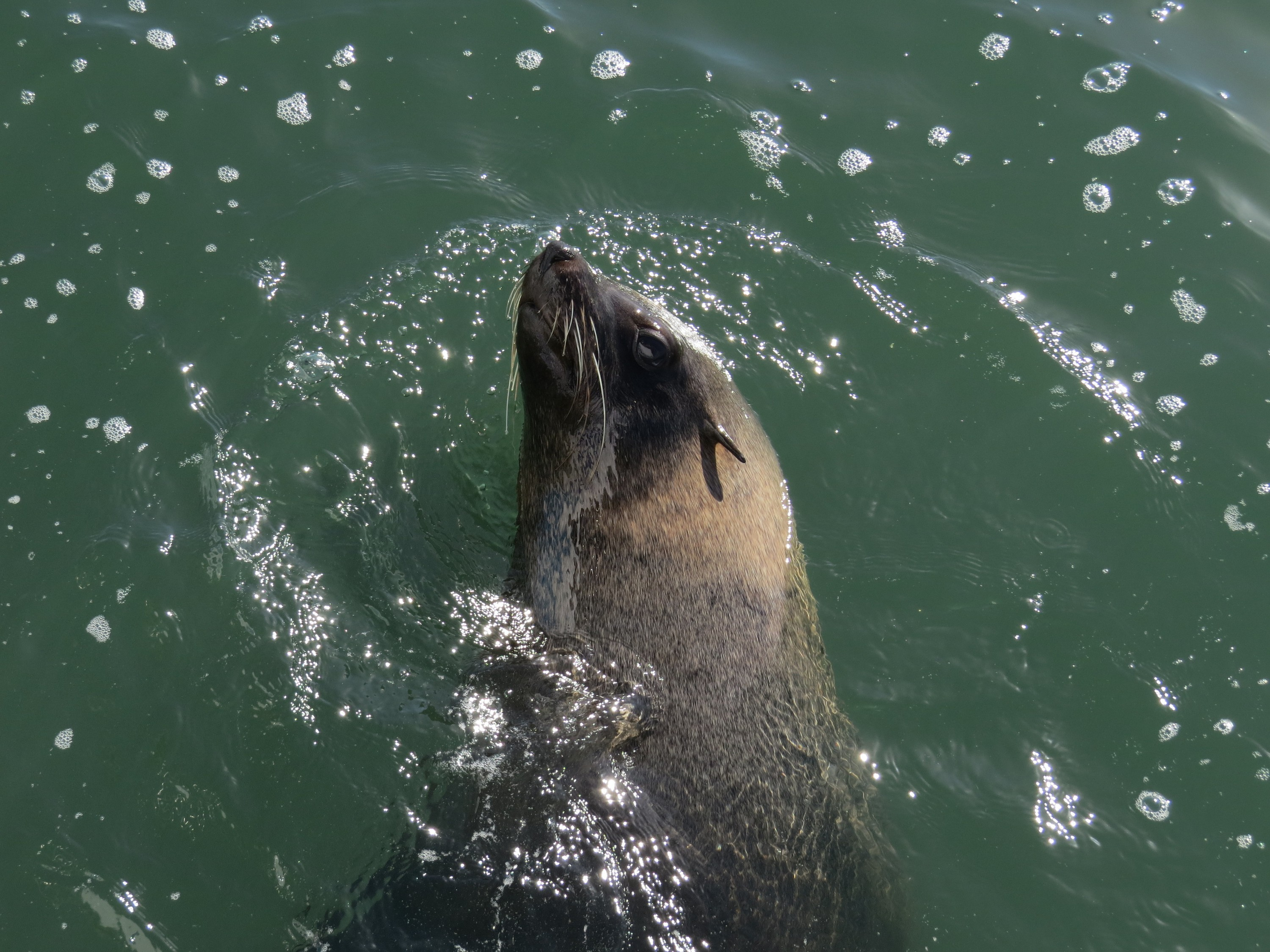 Eared seal off the coast of Namibia.